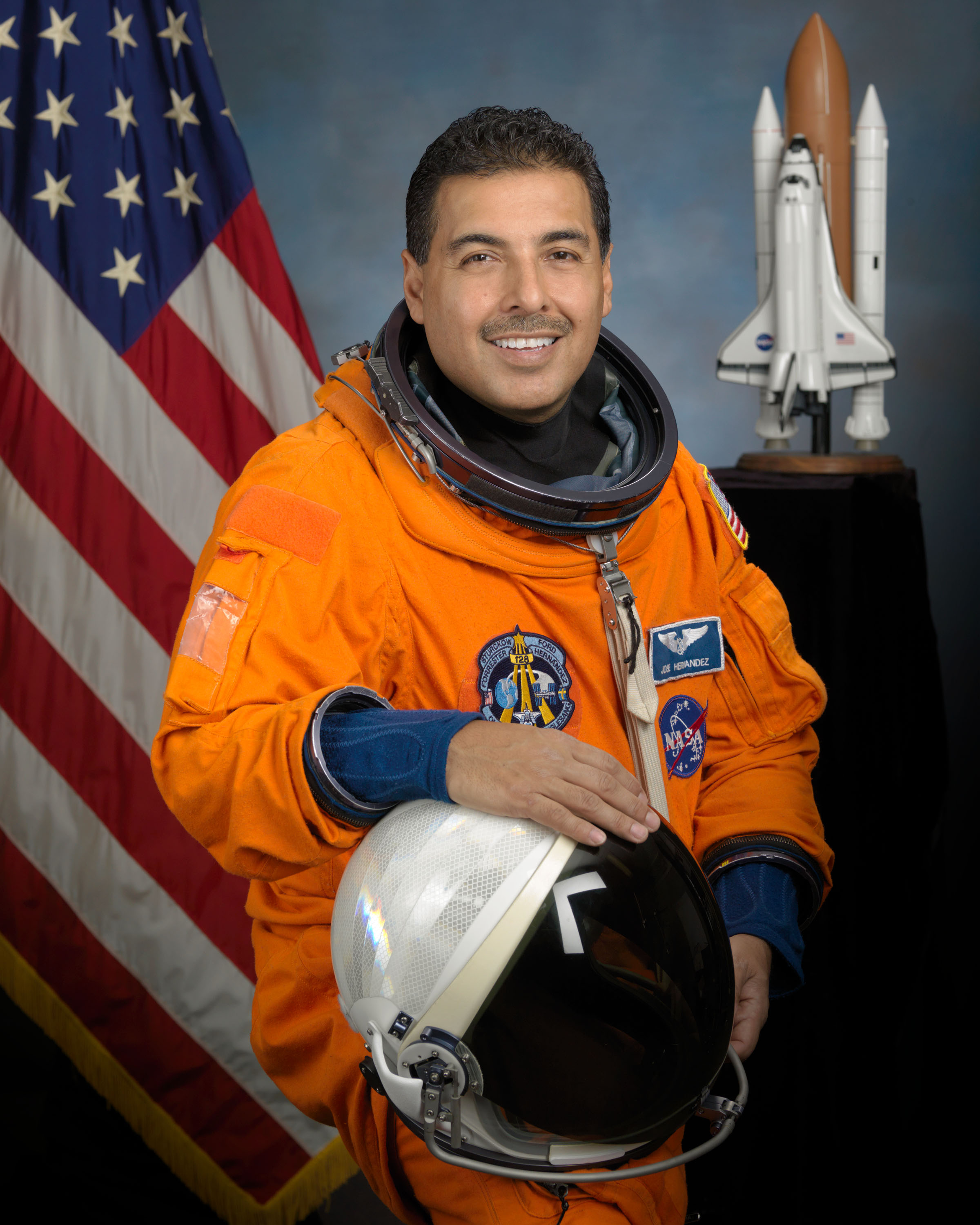 Astronaut Jose M. Hernandez, mission specialist